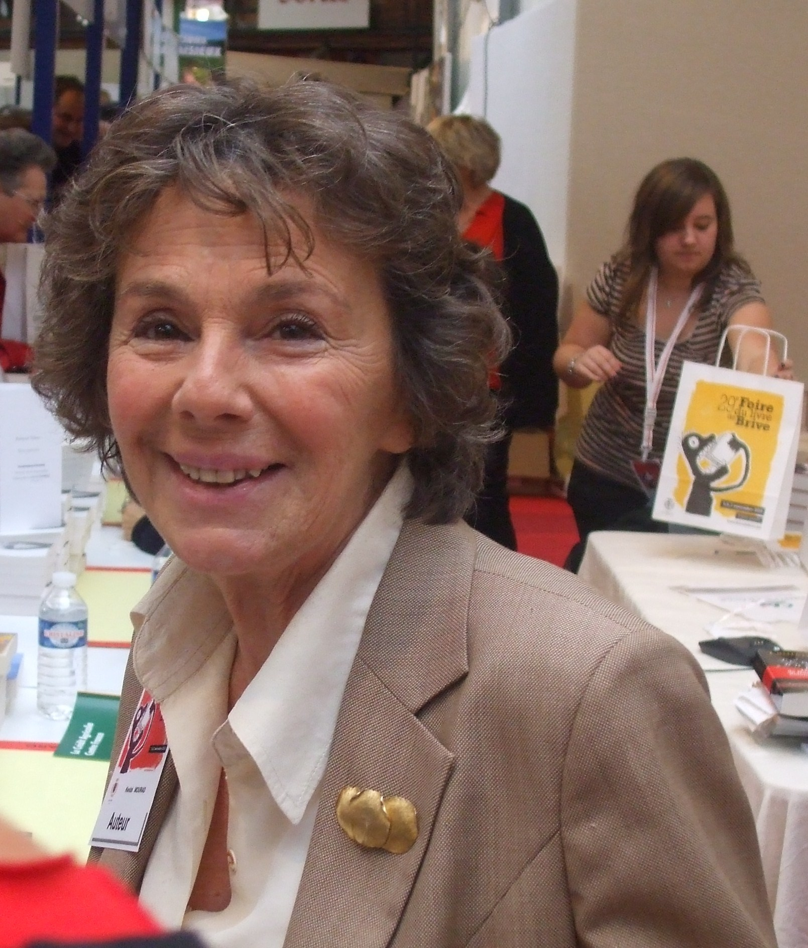 Kenizé Mourad, french journalist and writer, Brive la Gaillarde book fair, France, 2010 11 06